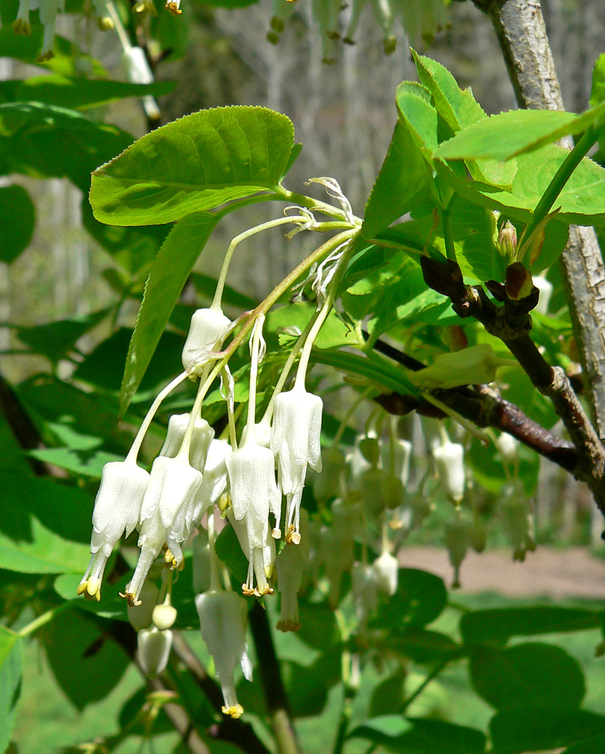 Photo of Staphylea bolanderi at the Regional Parks Botanic Garden, Berkeley, California